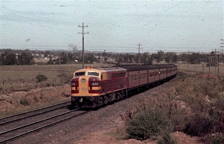 4459 heads a Sydney bound train north of Campbelltown